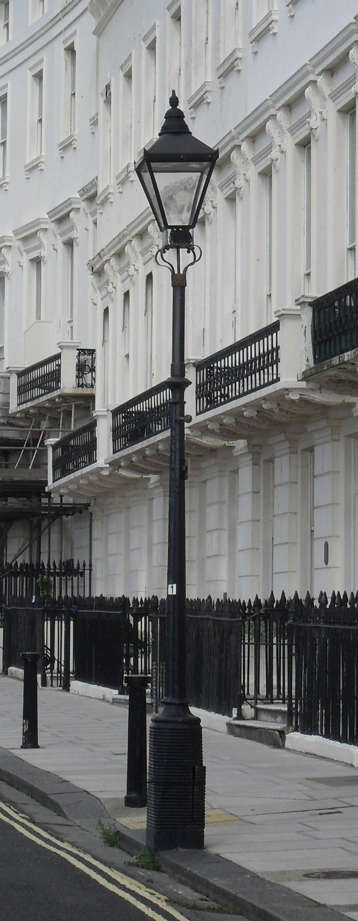 Grade II-listed lamp posts, Adelaide Crescent, Hove, City of Brighton and Hove, England.